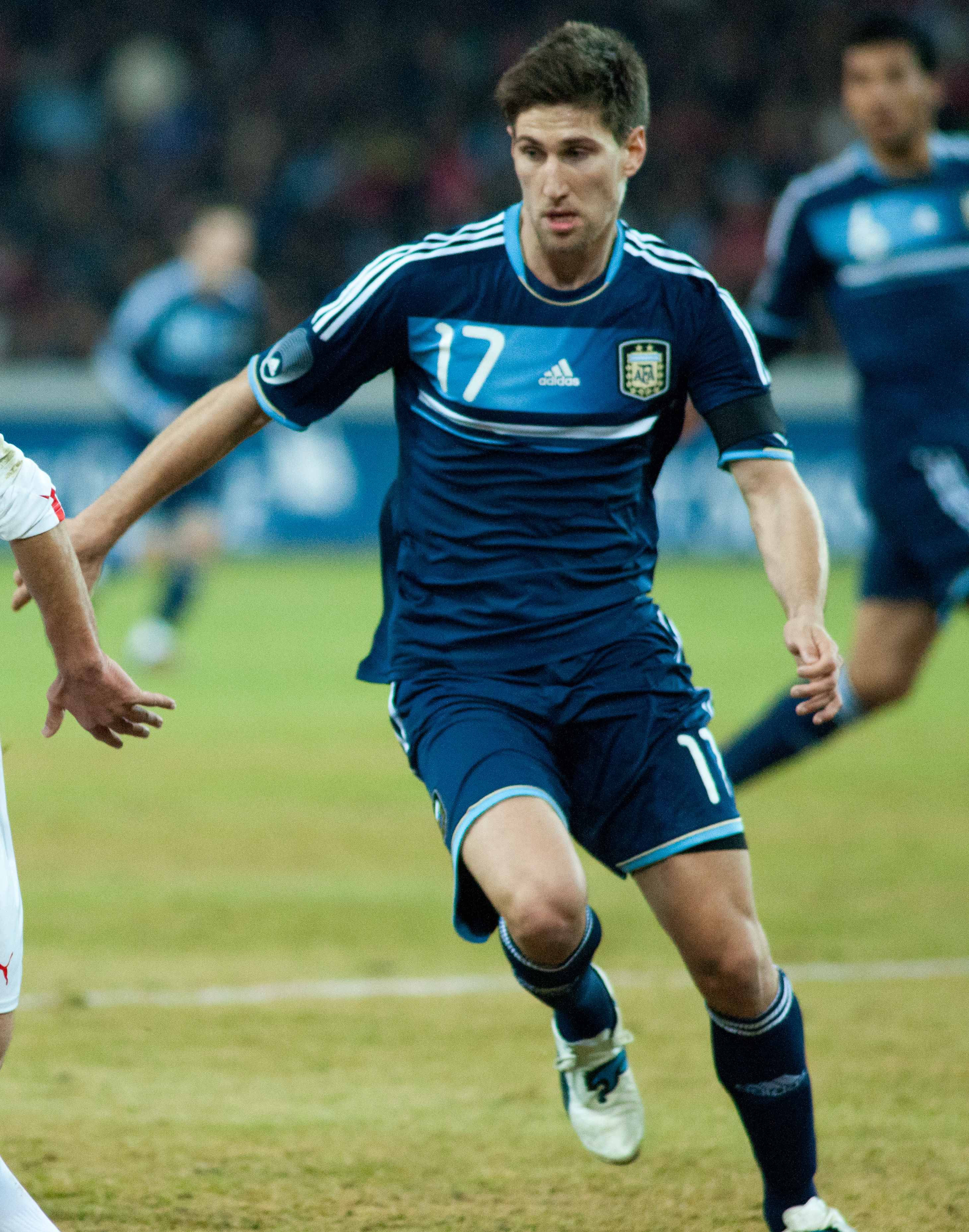 The making of this document was supported by Wikimedia CH. (Submit your project!) For all the files concerned, please see the category Supported by Wikimedia CH. Switzerland vs. Argentina, 29th February 2012